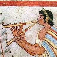 Etruscan Painting - Tomba dei Leopardi - Tarquinia - Italia